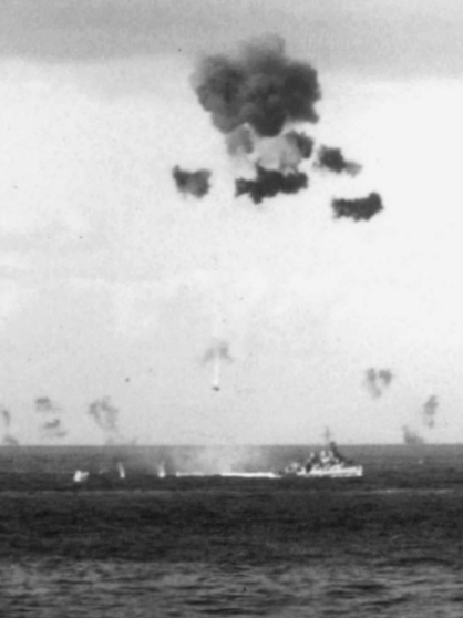 A Japanese Kamikaze suicide plane explodes above the U.S. Navy destroyer USS John Rodgers (DD-574) on 14 May 1945.